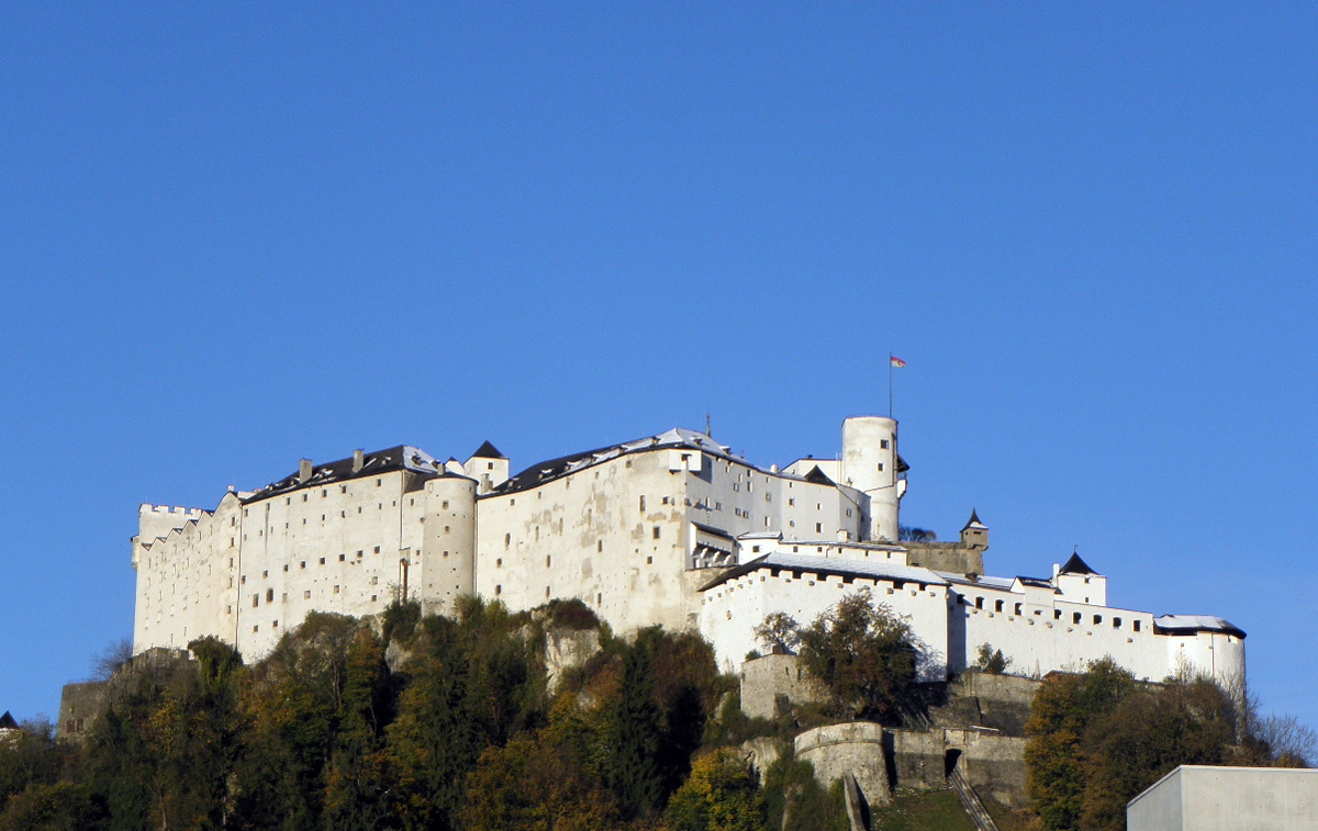 Hohensalzburg Castle in Salzburg, Austria